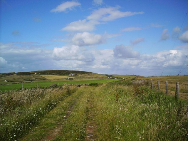 Crimea Lane near Slaithwaite and Pole Moor. Lane runs along the west side of Moorside Edge transmitting station.